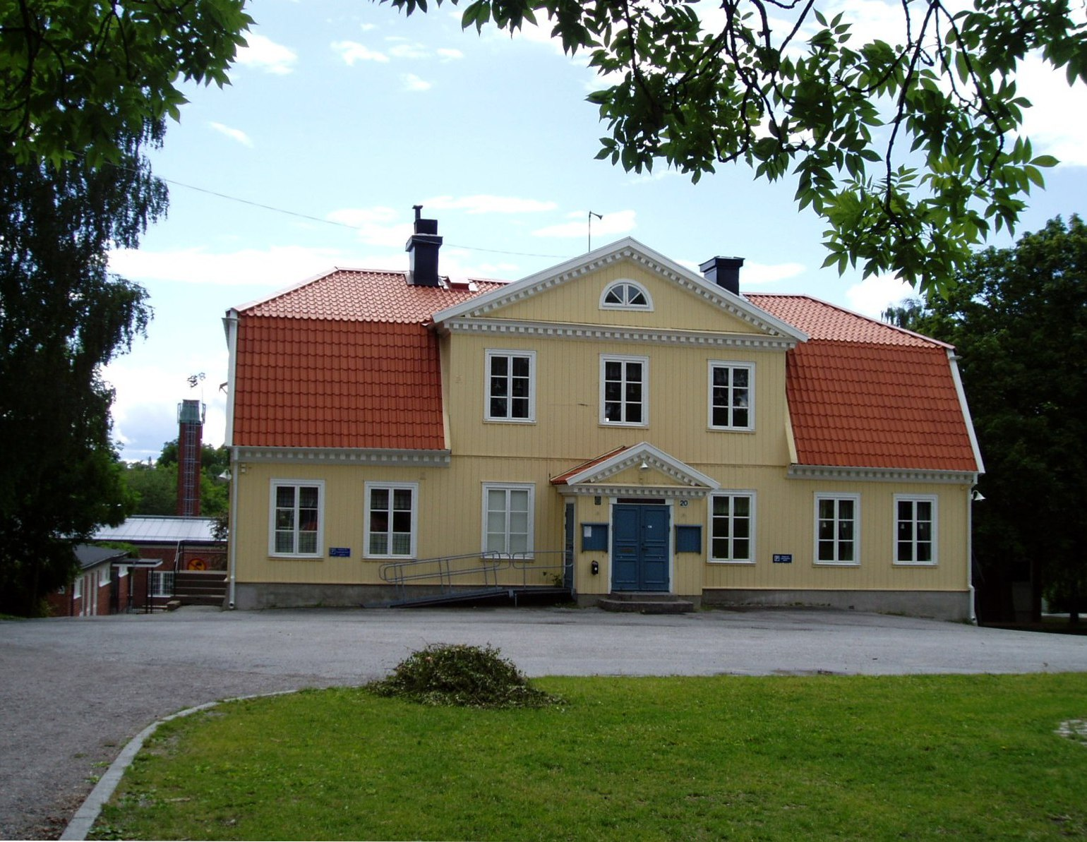 Skälby mansion, Järfälla municipality, Sweden